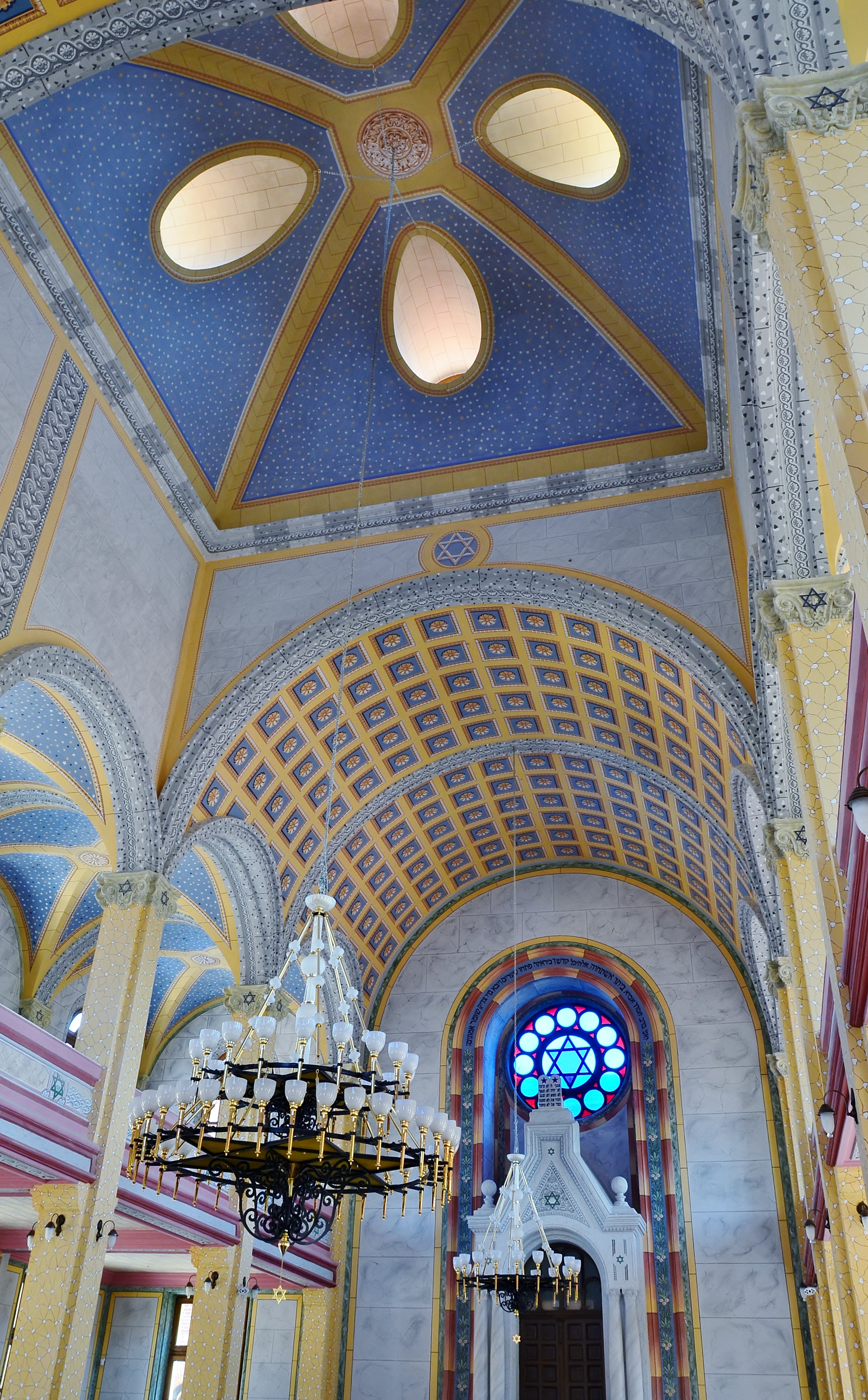 Ceiling of Grand Synagogue of Edirne